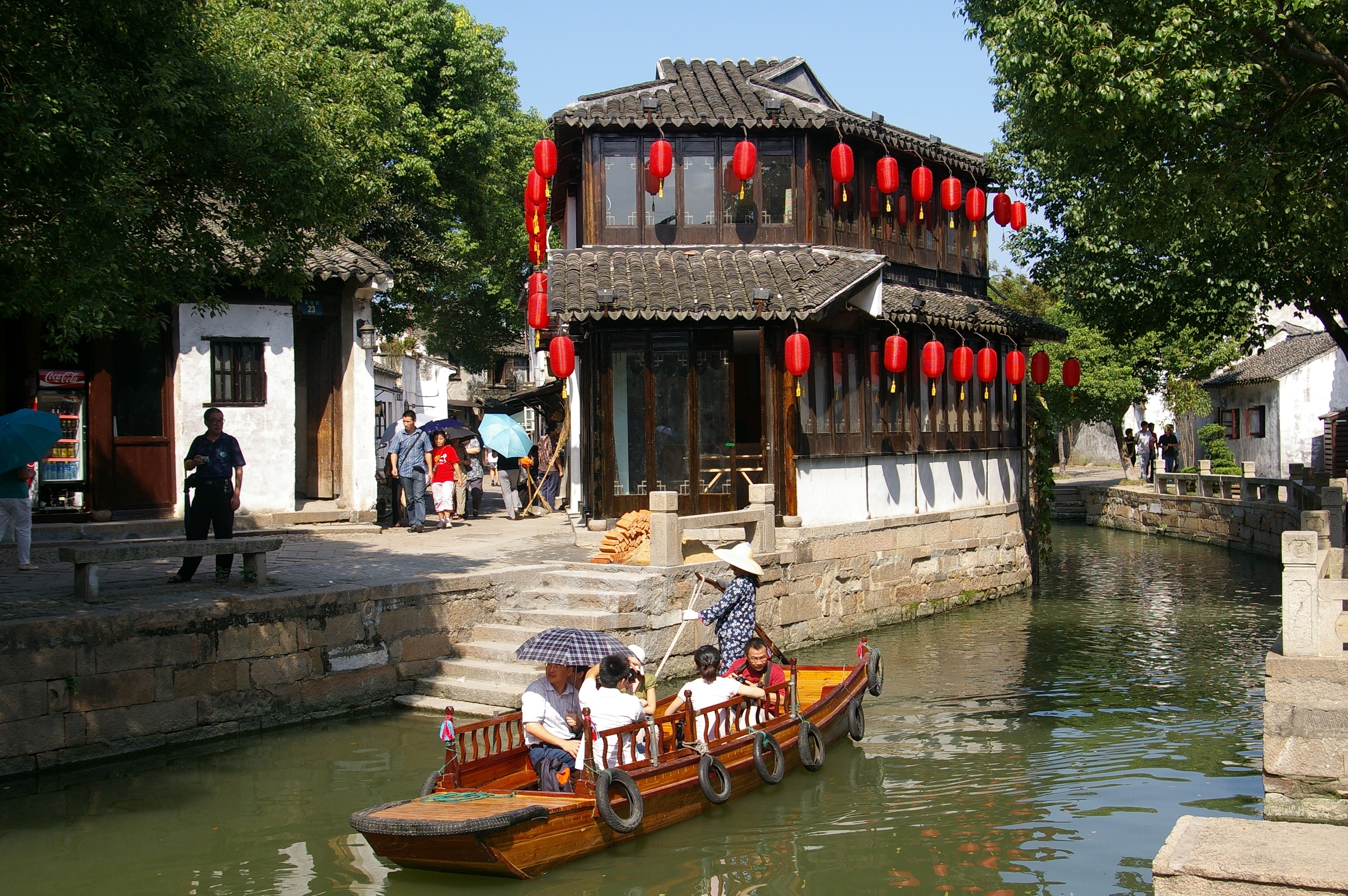 Tongli town canal and quay — red lanterns on eaves.